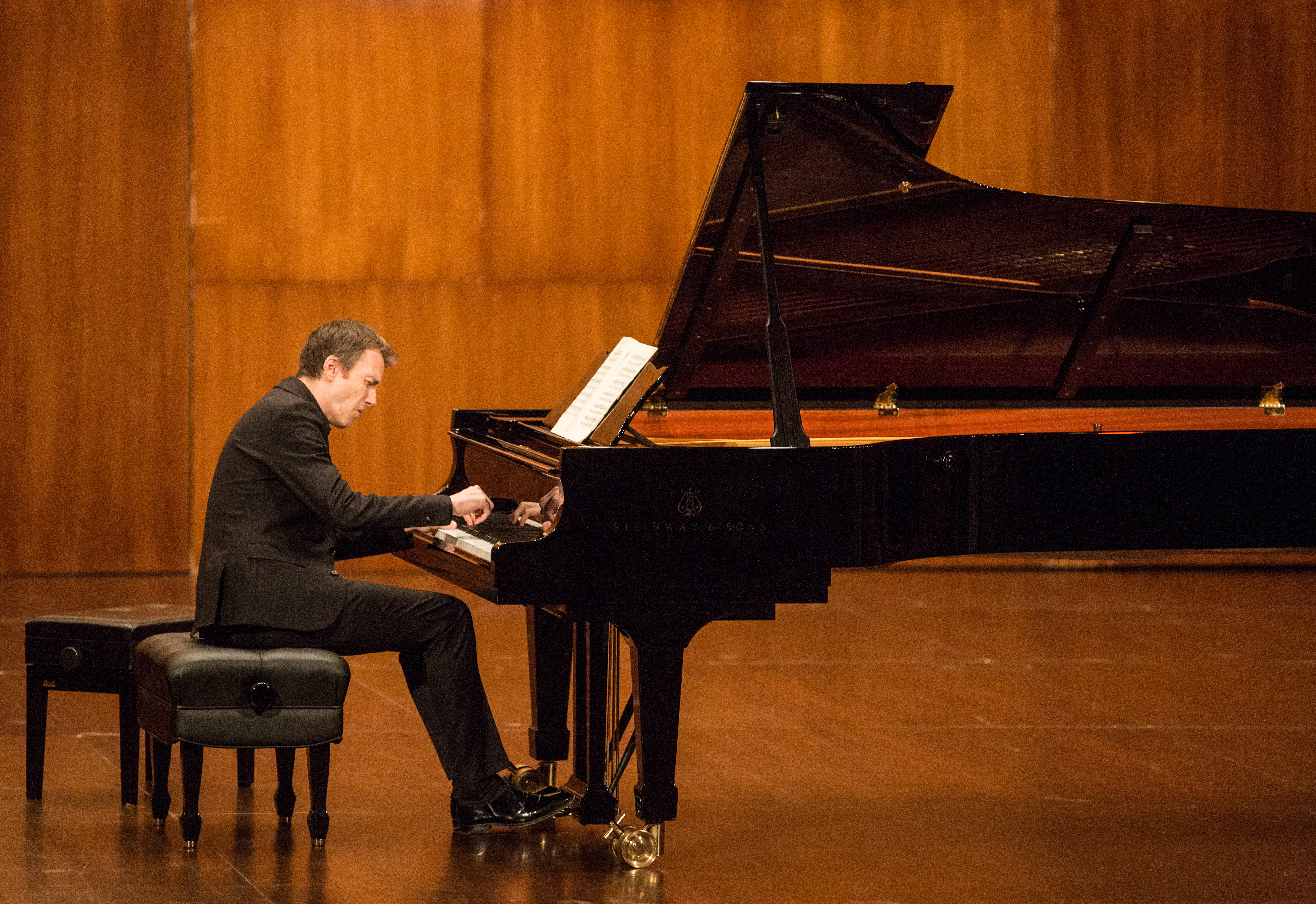 Alexandre Tharaud05